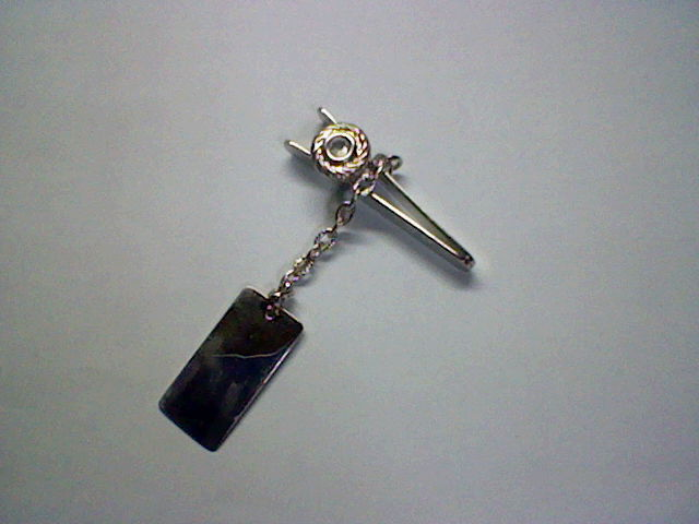 Shoes marker